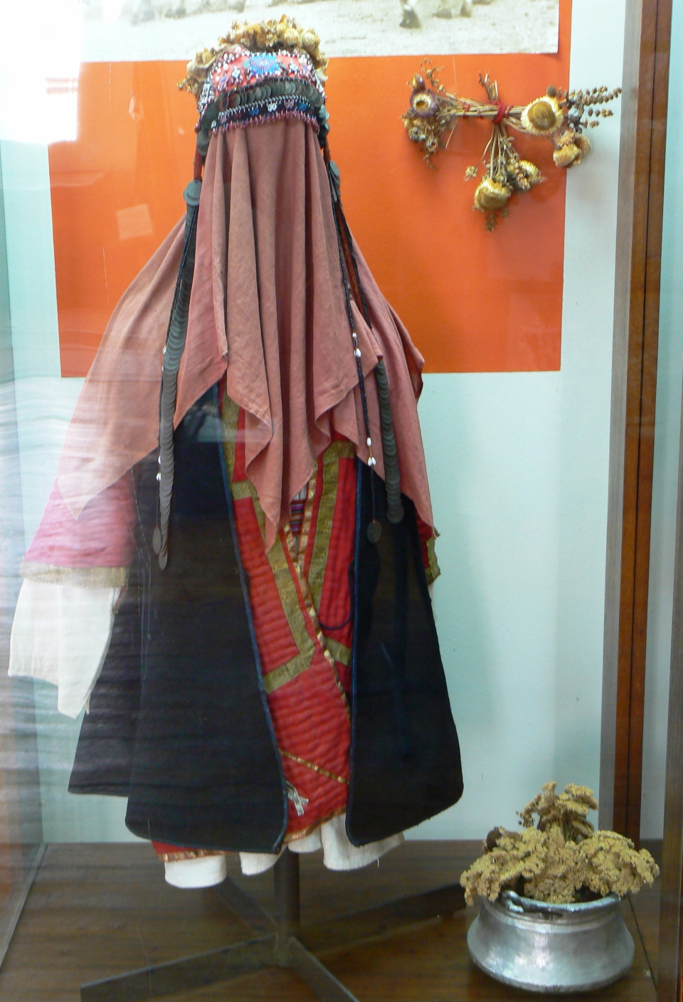 Traditional female festive costume for "Enyovden" from village Fakia, Burgas ethnographic museum